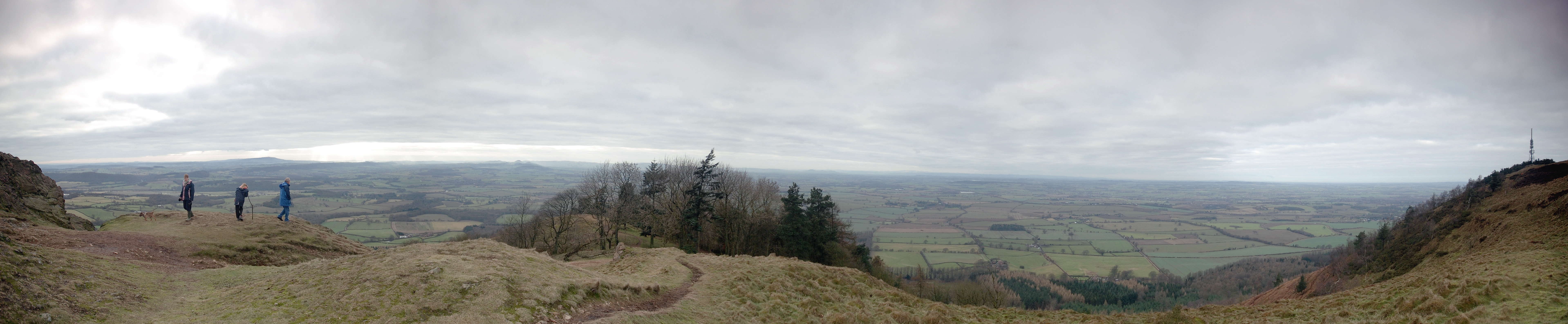 Panorama from the top of The Wrekin, Shropshire, looking west towards Wales.